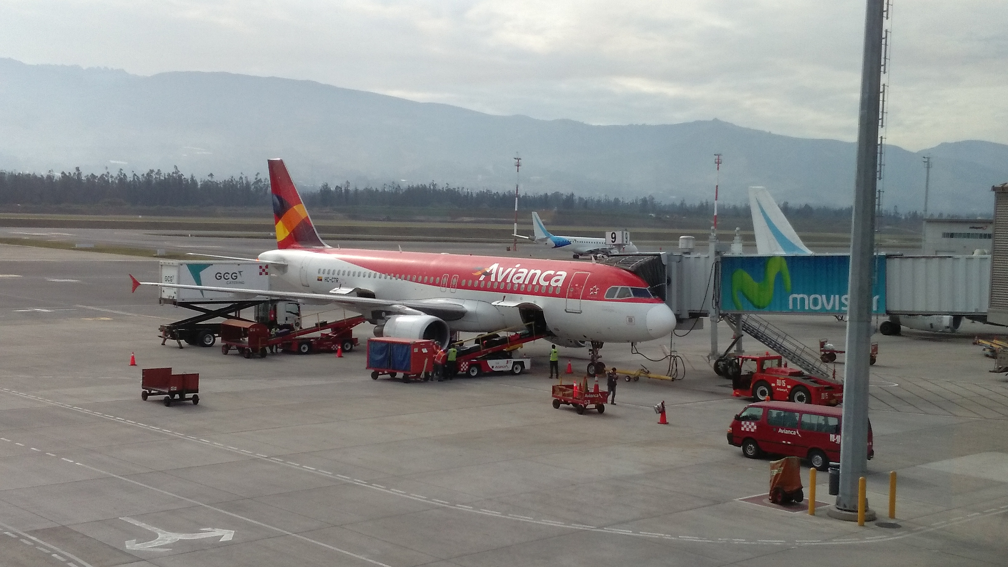 Avianca Ecuador Airbus A320